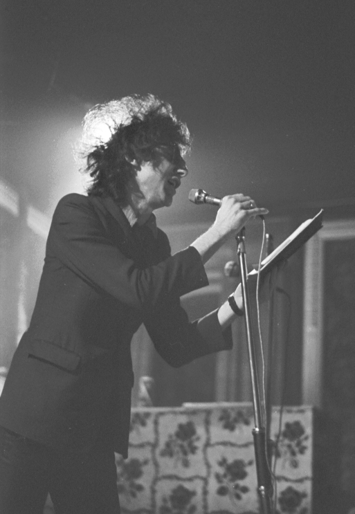 John Cooper Clarke, Cardiff, 1979